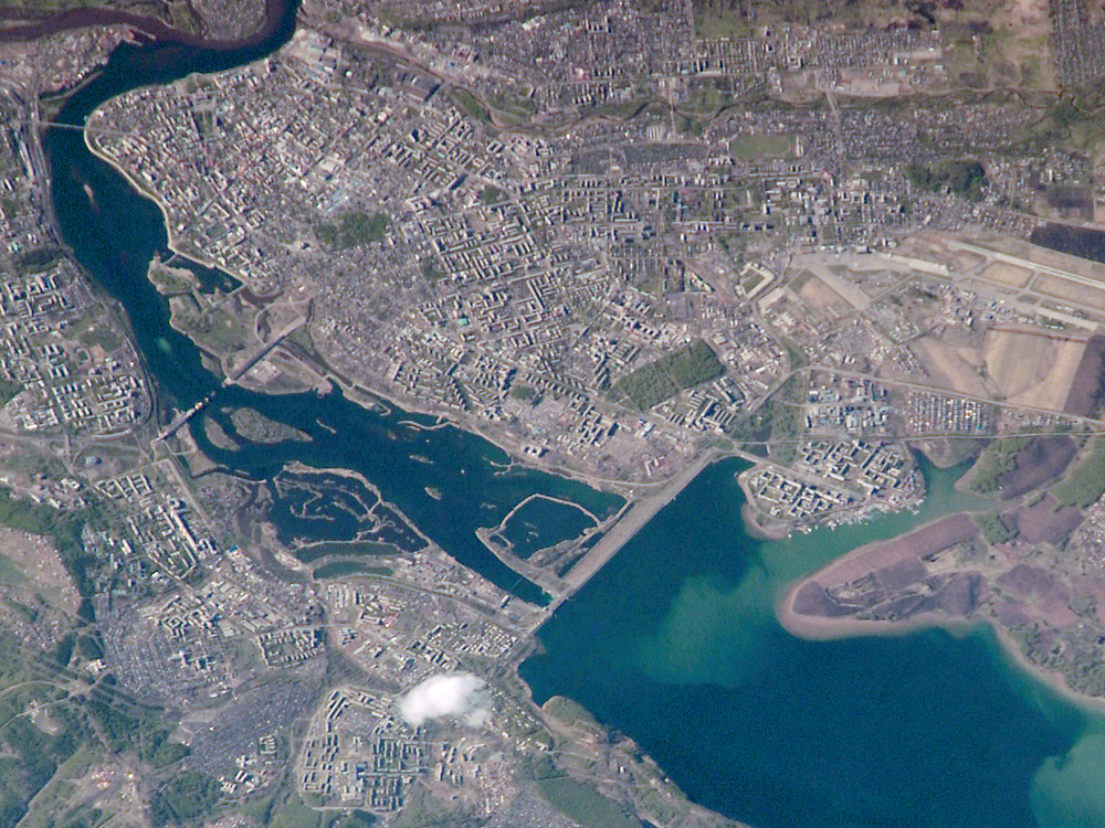 Astronaut photo of Irkutsk. The downtown area is visible in the upper left along the Angara River.